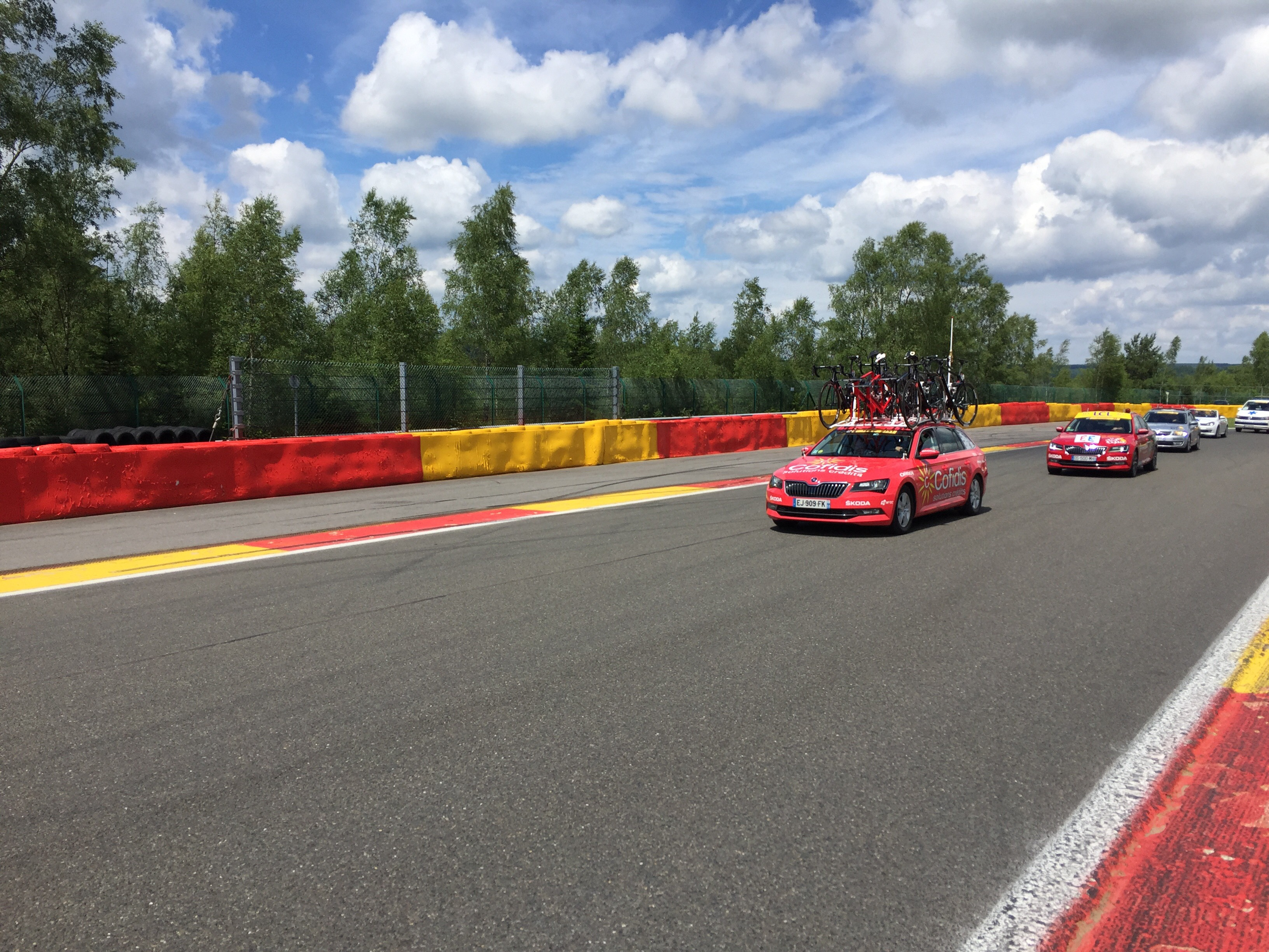 Tour de France